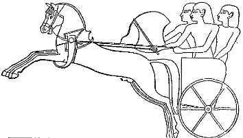 An illustration from the Encyclopaedia Biblica, a 1903 publication which is now in the public domain. Fig. 7 for article "Chariot". Image of a Hittite chariot.